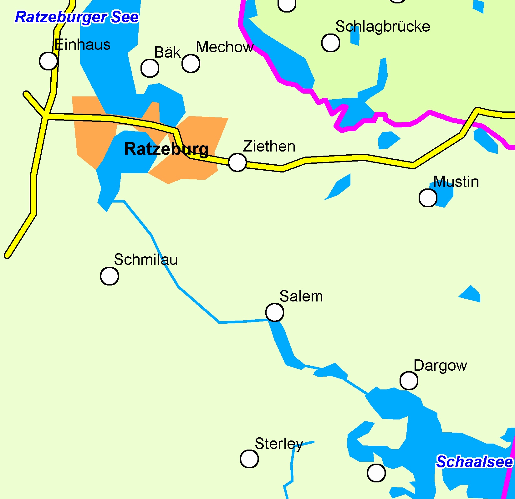 Map of canal Schaalseekanal